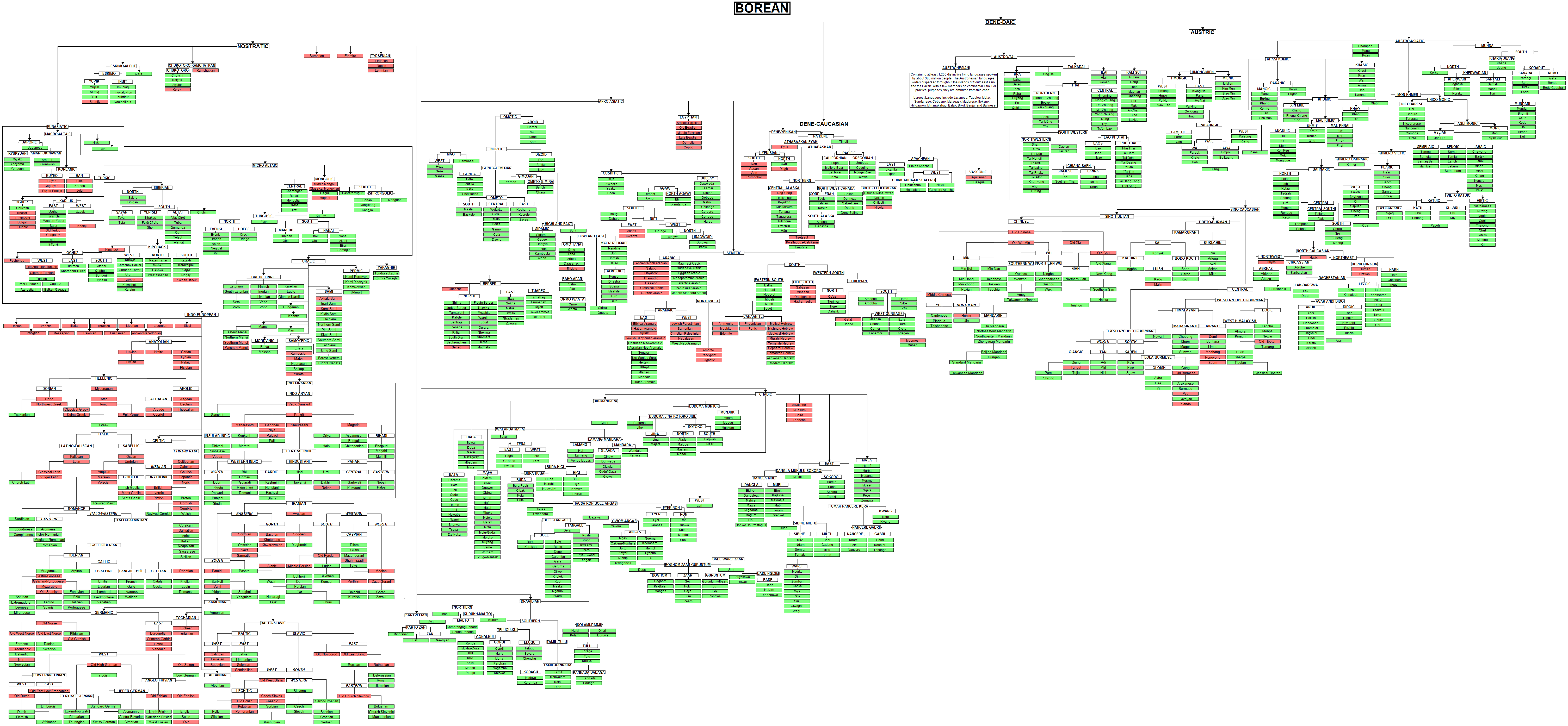 Near Complete Phylogenetic Tree of Borean Language Families Based on Data from Ethnologue, and the data of Sergei Starostin. Borean is composed according to Sergei Starostin is as follows: "Borean" Nostratic (speculative, Holger Pedersen 1903) Afroasiatic (widely recognized family), inclusion of Omotic debated. Eurasiatic (speculative, Joseph Greenberg 2000), c.f. Indo-Uralic Indo-European (widely recognized family) Uralic (widely recognized family) Macro-Altaic (controversial; Roy Andrew Miller 1971, Gustaf John Ramstedt 1952, Matthias Castrén 1844), "Macro-Altaic" has less scholarly acceptance than "Micro-Altaic" or Altaic proper, uniting only Turkic, Mongolic and Tungusic Turkic (widely recognized family) Mongolic (widely recognized family) Tungusic (widely recognized family) Korean (language isolate) Paleosiberian (phylogenetic unity widely rejected) Nivkh, placed under Palaeo-Siberian by Starostin, not always included even within Nostratic Eskimo–Aleut Yukaghir (sometimes grouped with Uralic) Chukotko-Kamchatkan Kartvelian (widely recognized family Dravidian (widely recognized family) Dene-Daic (speculative, Starostin 2005) Dené–Caucasian (speculative, Nikolayev 1991; expanded by Bengtson 1997), c.f. Dené–Yeniseian (Edward Vajda 2008) Na-Dené (widely recognized family) Basque (language isolate) Sino-Caucasian (speculative, Starostin 2006) Sino-Tibetan (widely recognized family) North Caucasian (speculative unification of East Caucasian and West Caucasian, Nikolayev & Starostin 1994) Yeniseian (widely recognized family) Burushaski (language isolate) Austric (speculative, Wilhelm Schmidt 1906) Austroasiatic (widely recognized family) Miao–Yao (widely recognized family) Austro-Tai (speculative, Paul Benedict 1942) Austronesian (widely recognized family) Japonic (widely recognized family) Tai–Kadai (widely recognized family) .